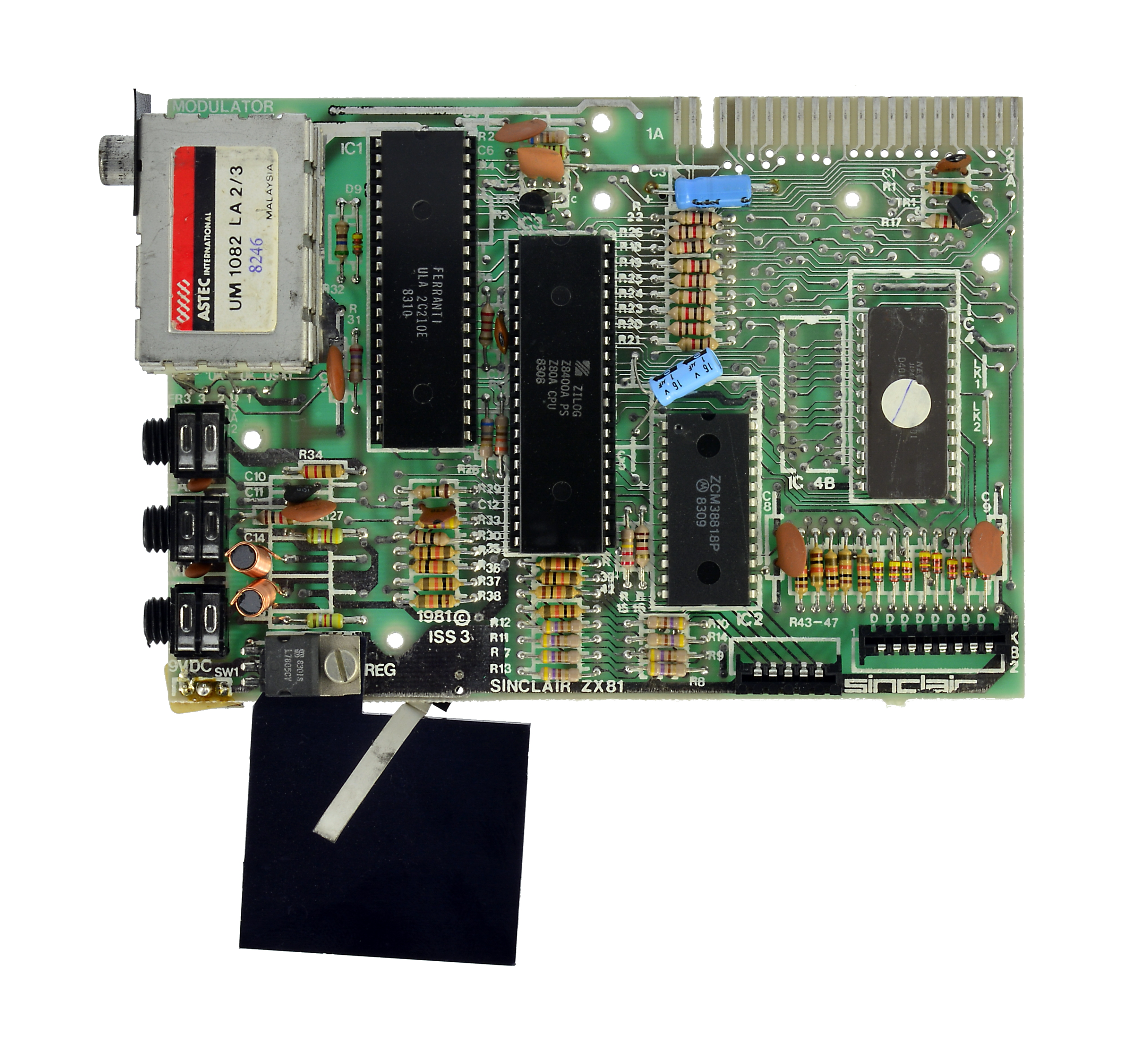 The motherboard of the Timex Sinclair 1000 released in 1982, was the American version of the ZX81, and the first computer to cost under 100$. It has black and white graphics and no sound, an integraded membrane keyboard, and an expansion slot. I was followed by the model 1500 in 1983. The Motherboard of the Timex Sinclair 1000 contains the 8-bit 3.25MHz Zilog Z80A CPU. It has 2 KB of memory and a 60Hz NTSC TV modulator. The name "Sinclair ZX81" can bee seen in this version of the PCB, however there are other versions containing the Timex Sinclair 1000 branding.